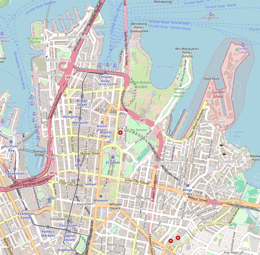 Central Sydney mapped by Open Street Map. Bounds (approx) (top: -33.8528, base: -33.8832, left: 151.1960, right: 151.2320). This map may be incomplete, and may contain errors. Don't rely solely on it for navigation.